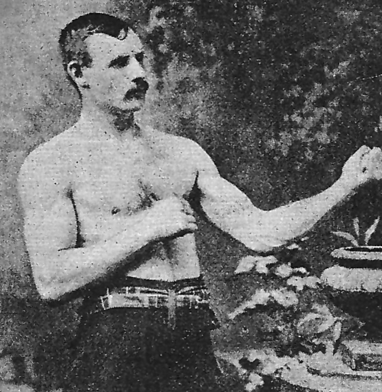 This is a black and white photo of welterweight boxer Jack McGee who fought in the nineteenth century. Photo taken around 1890.